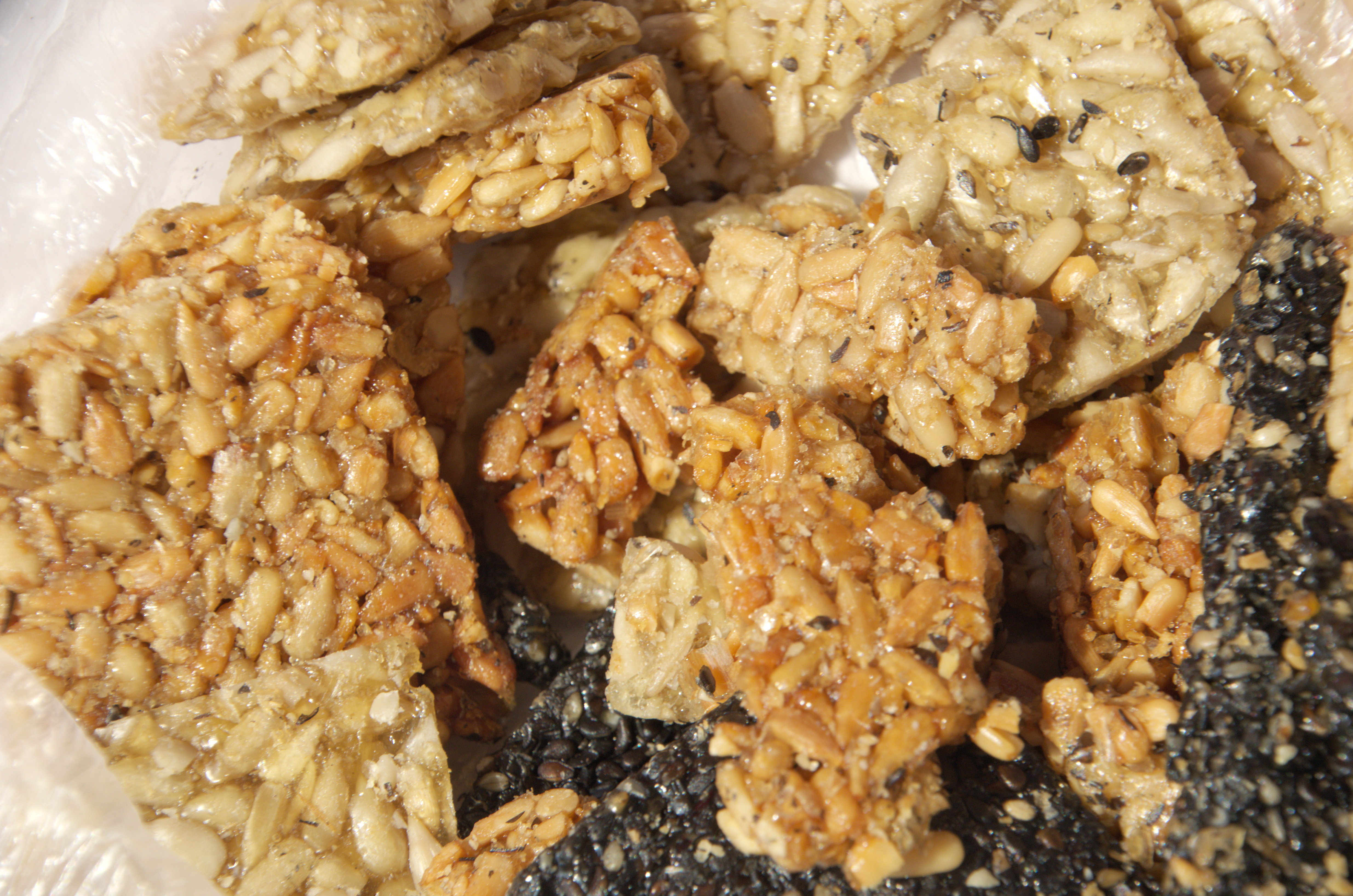 Highland barley biscuits (青课饼), This cereals bars are mixed with various cerals like white or black sesam, and with a little bit of honey. Those one was found on the Wenchuan County